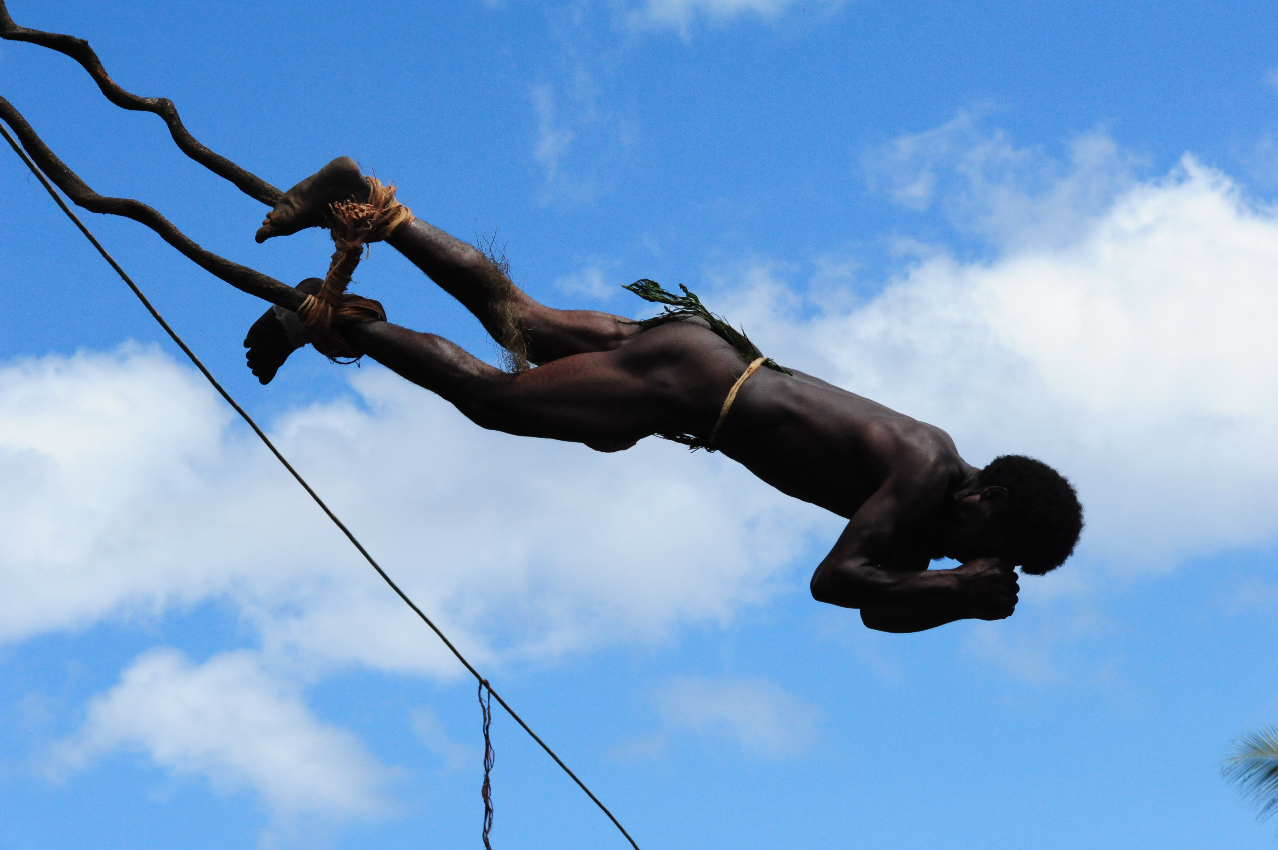 Land Diving -- Pentecost Island, photo by Christopher Hogue Thompson